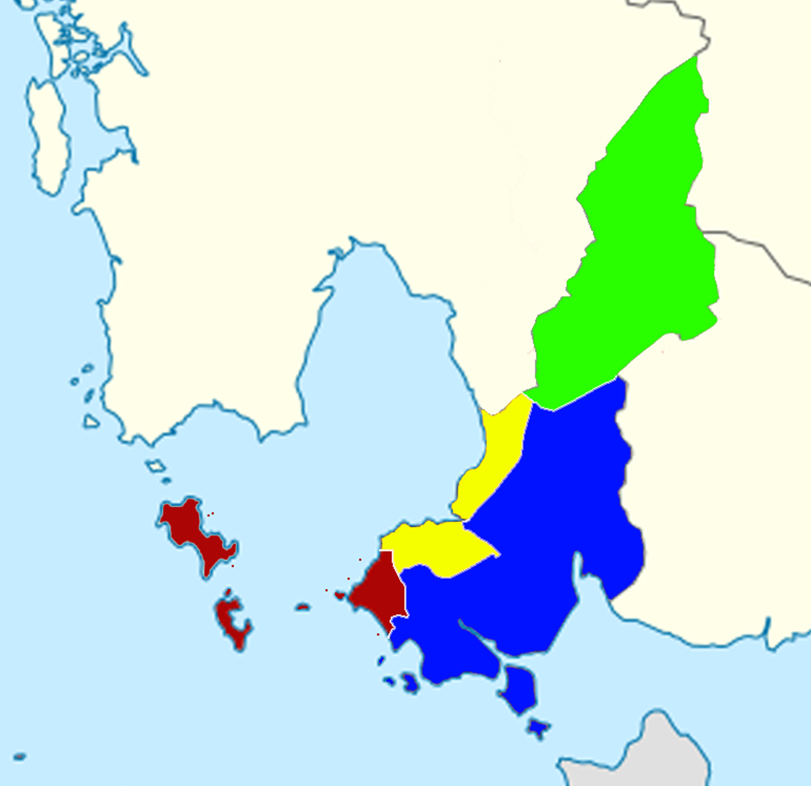 map graphic highlighting the districts of Sihanoukville Province in Cambodia, 2014: red: Krong Preah Sihanouk (Preah Sihanouk Municipality) yellow: Stueng Hav District blue: Prey Nob District green: Kampong Seila District